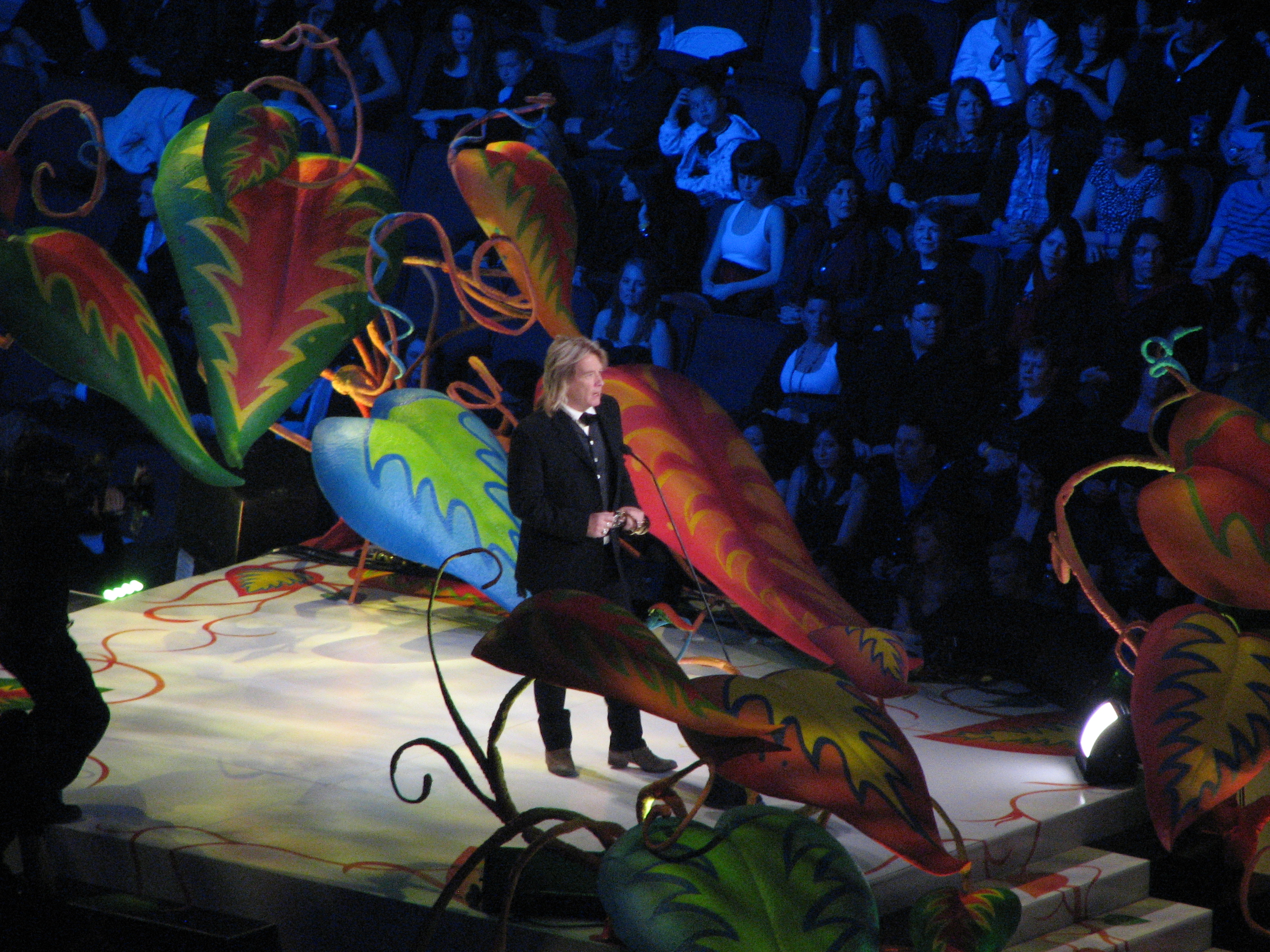 Bob Rock makes a presentation at the 2009 Juno Awards in Vancouver, British Columbia, Canada.